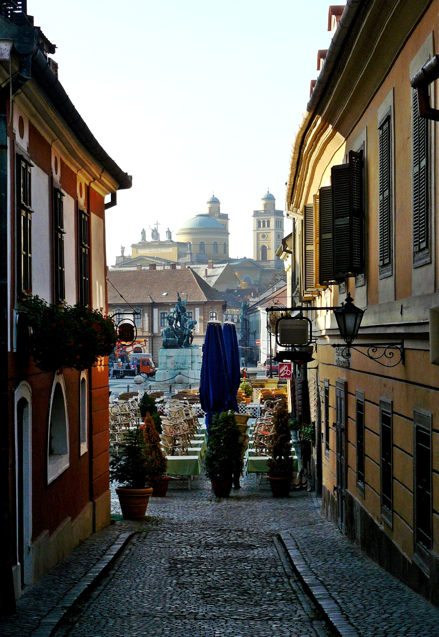 View of Dobó square from a small street near the castle in Eger